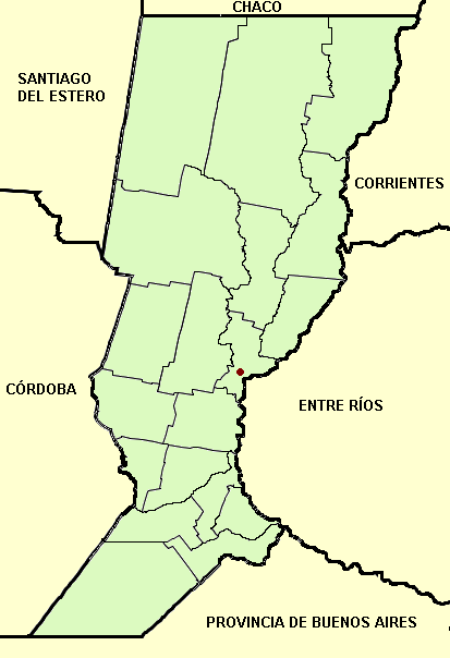 It shows administrative boundaries of Santa Fe province in Argentina, its departments and its capital (Santa Fe city).